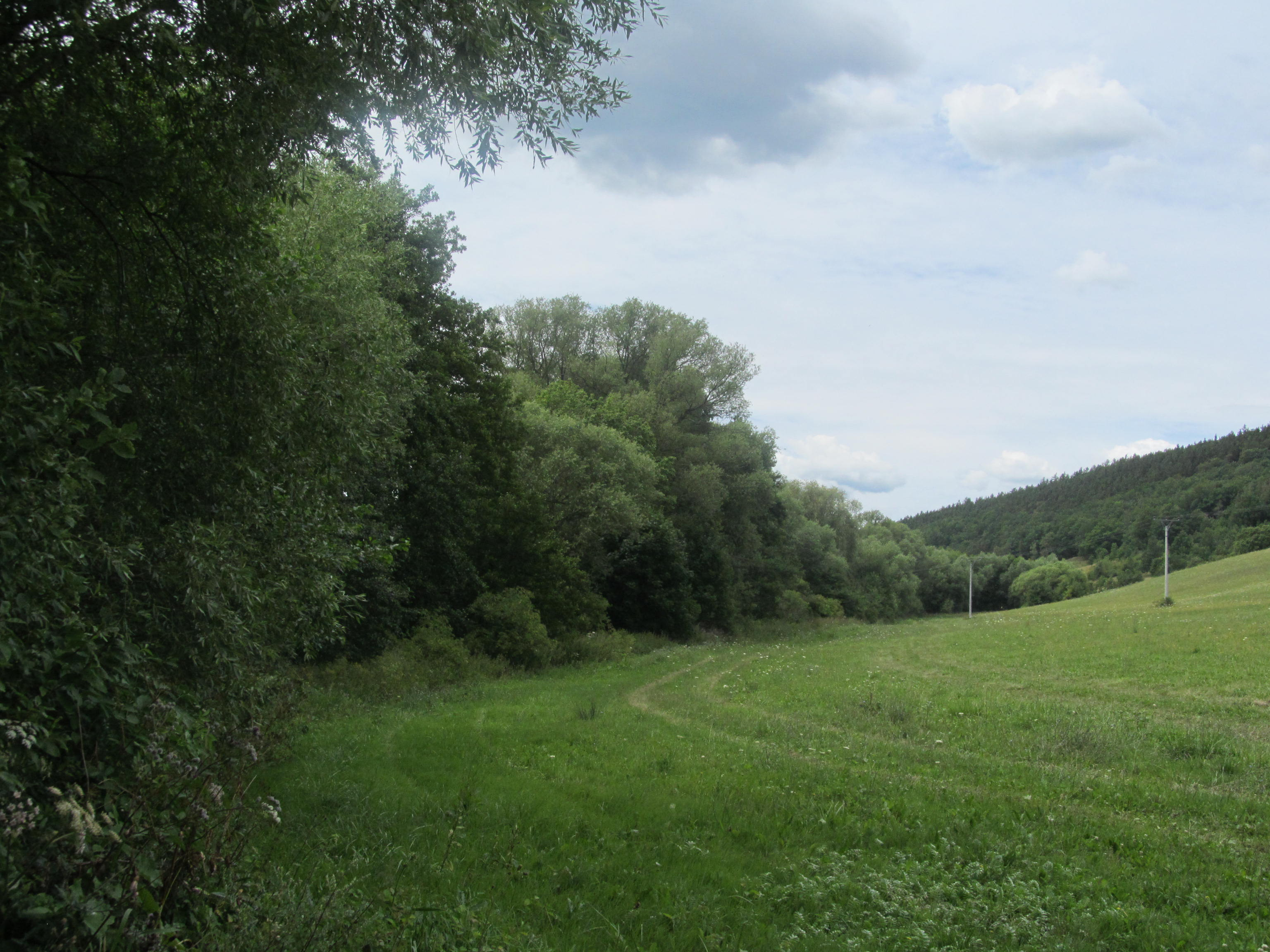 Bed of Vrbičský stream by Skytalský hill